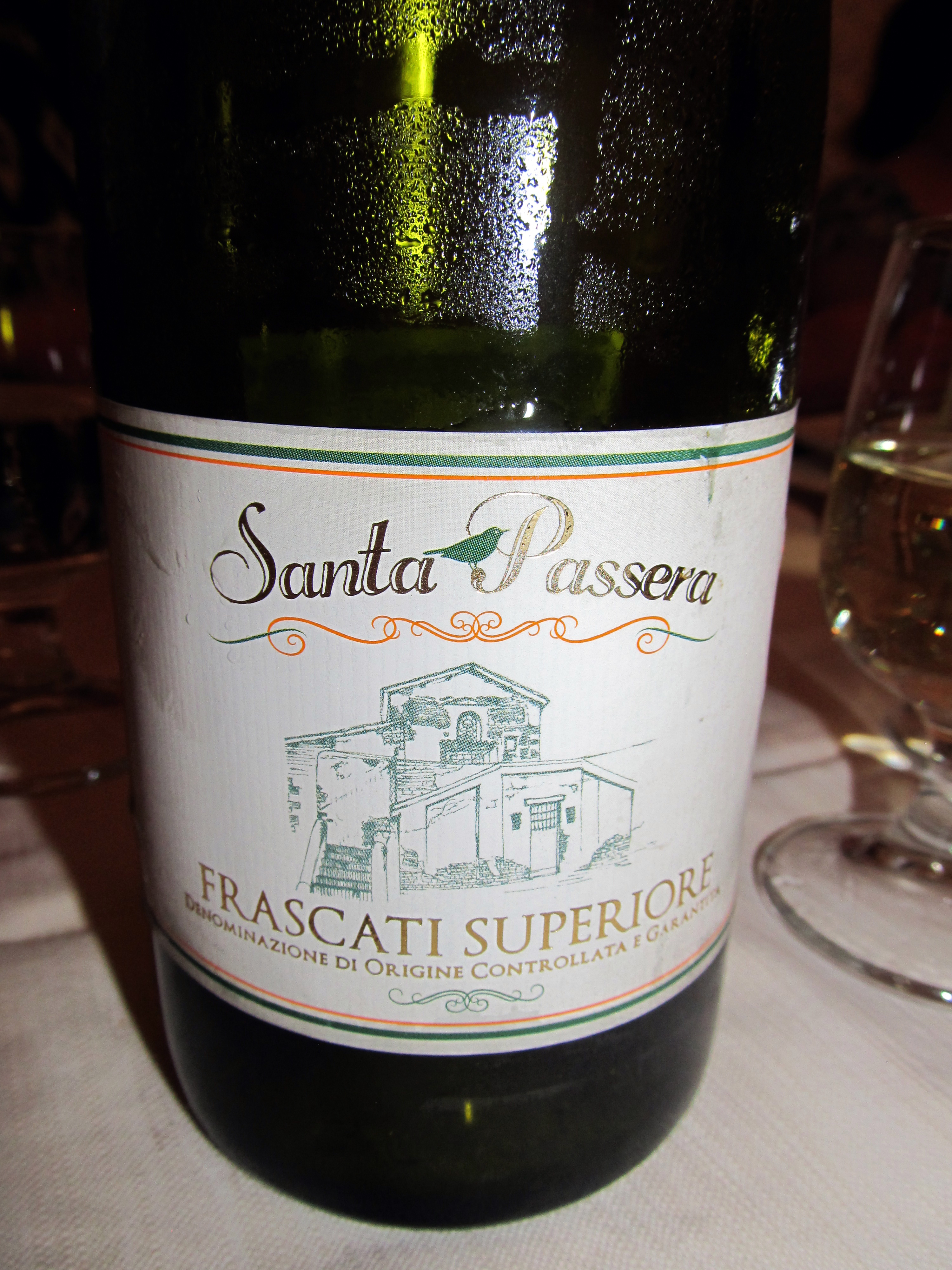 Frascati Superiore wines come from the northern end of the Colli Albani hills, just to the southeast of Rome. The region of Lazio is known more for its white wines than red, and this one was a dry, crisp white that paired well with our pasta